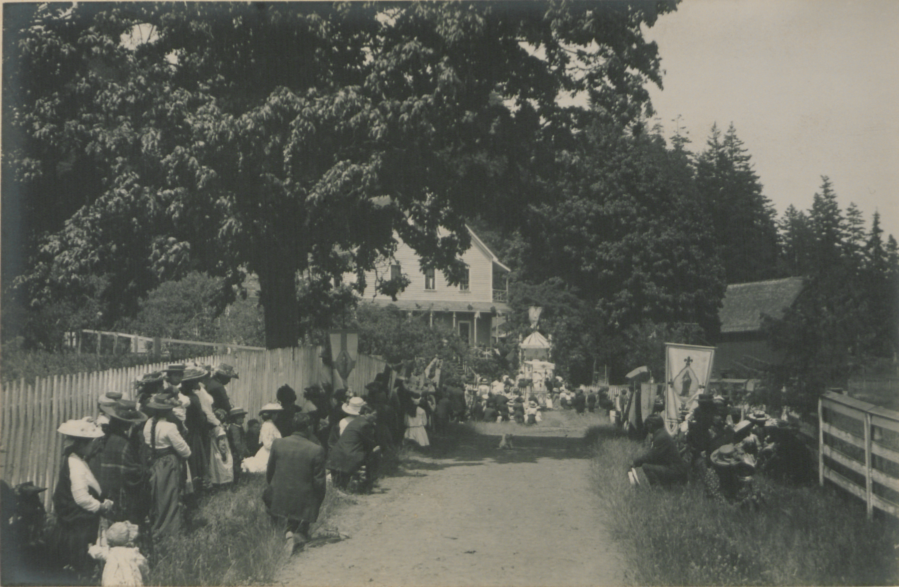 Benediction of the blessed sacrament St. Anne's Convent, Quamichan, 1912.